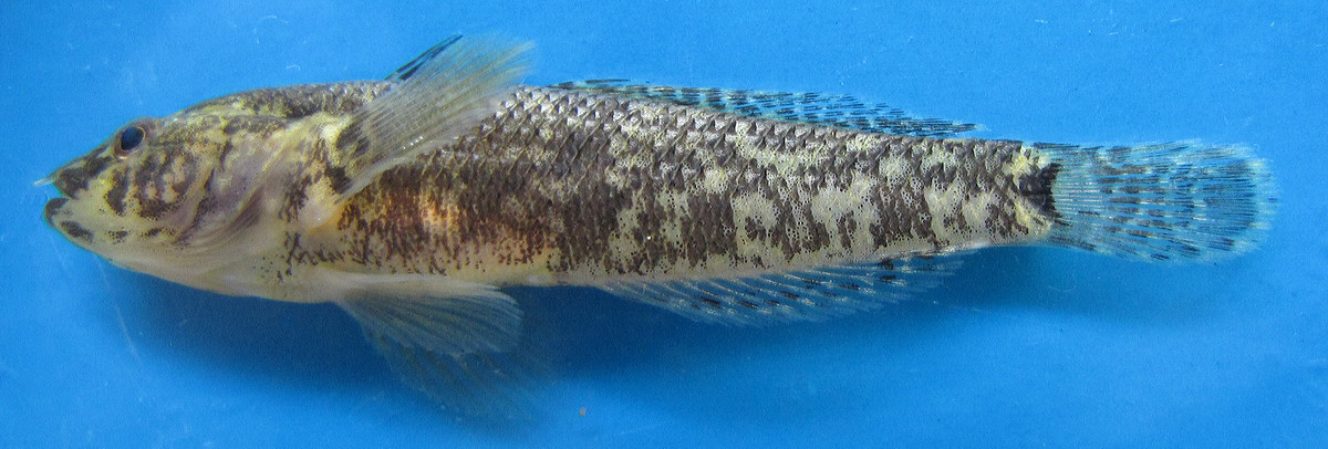 Eastern tubenose goby (Proterorhinus nasalis) from the Caspian Sea near Bandar-e Anzali, Iran